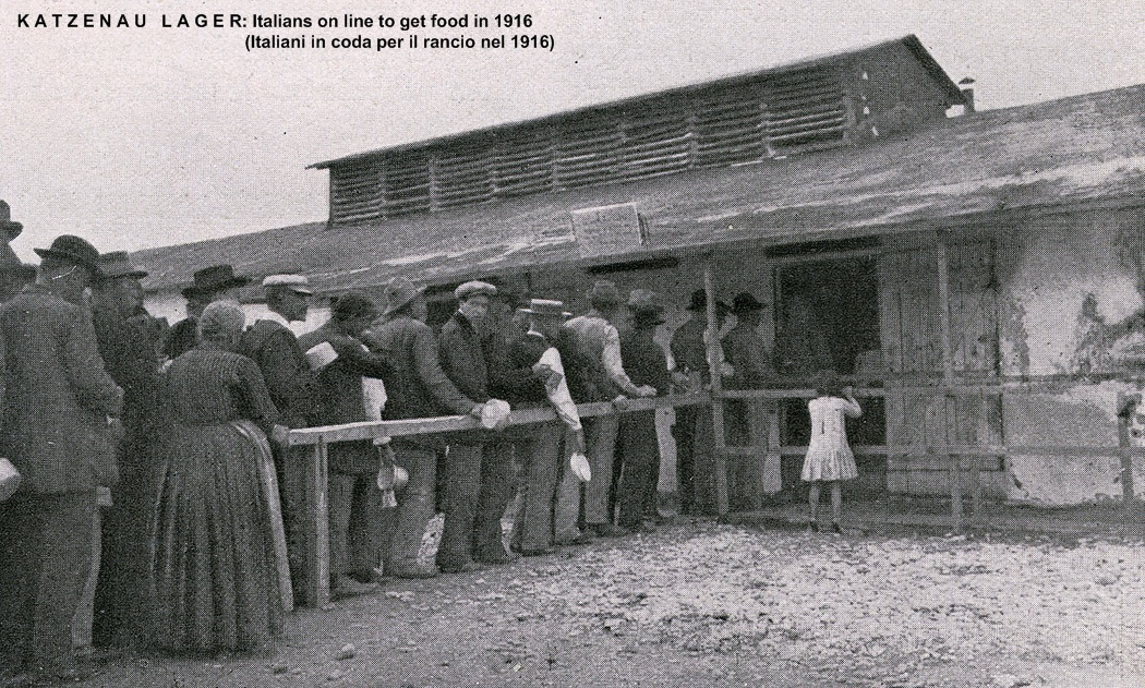 Image of Italians inside the Katzenau lager in northern Austria during WWI. Photo done with my digital Kodak camera of an image from book (G. Gentili, "La deportazione trentina", Tridentum editoriale, Trento, 1920) about first world war. Image not copyrighted because more than 70 years old. I have cut the image and added data with my software.